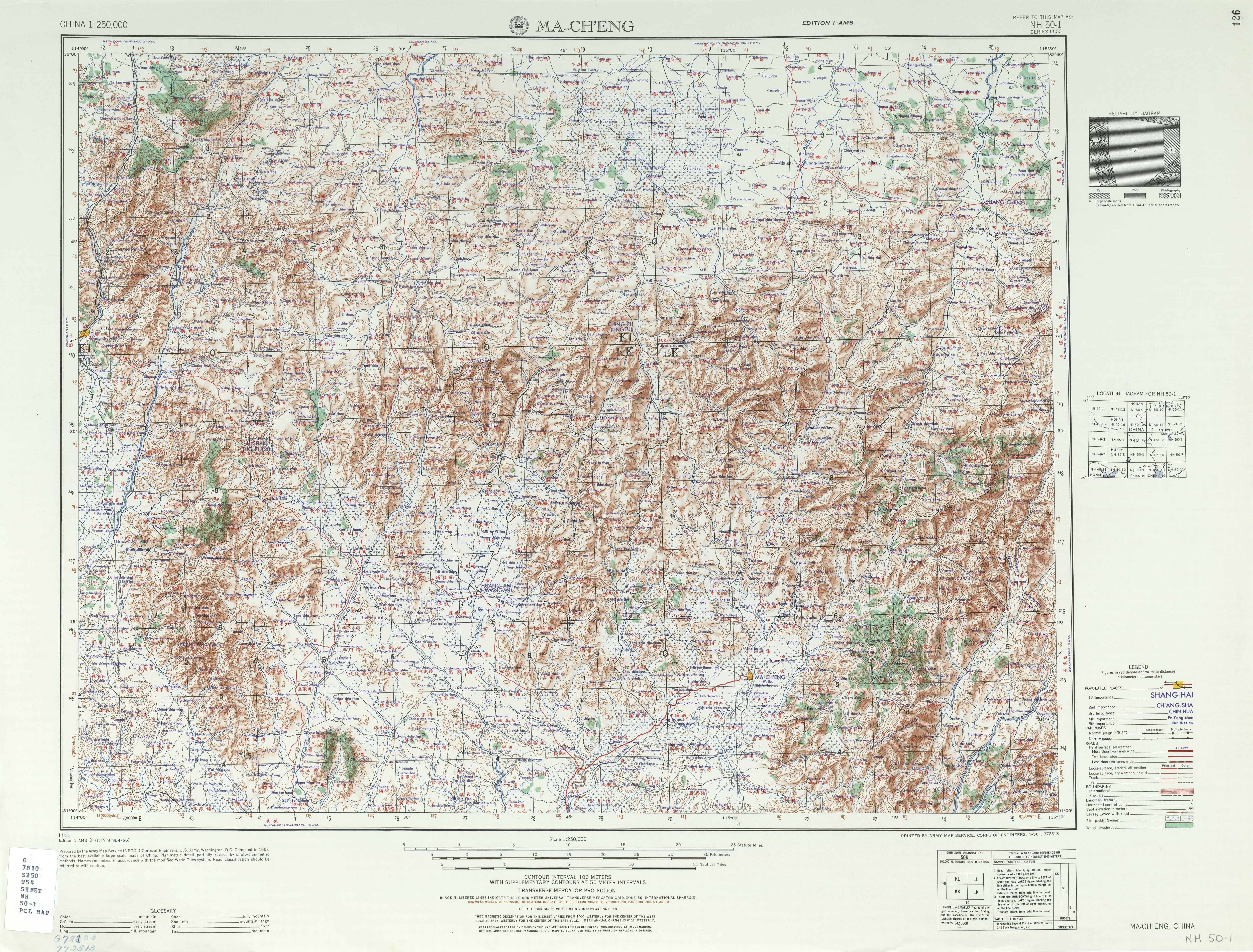 China AMS Topographic Maps